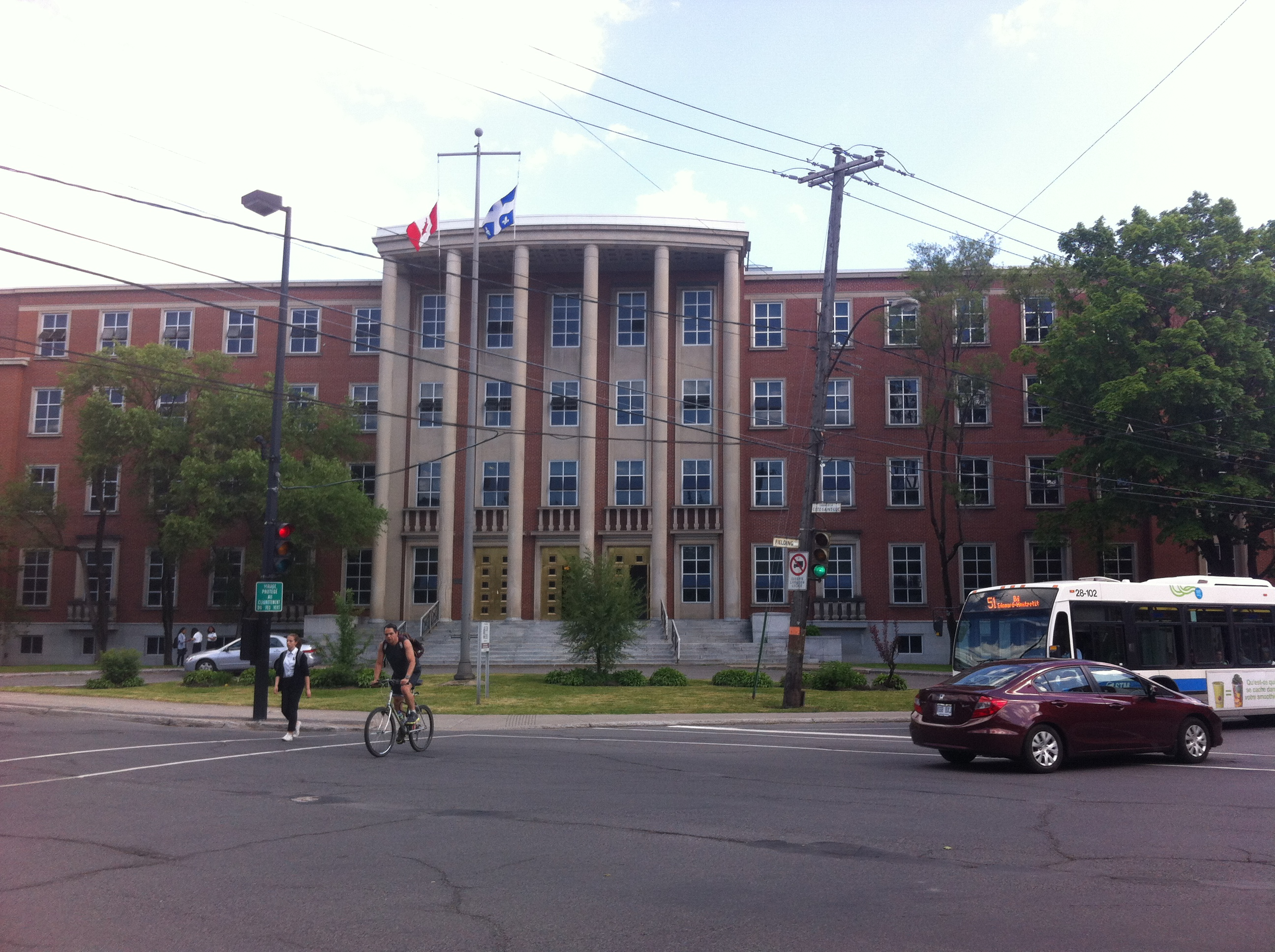 English Montreal School Board (EMSB) administrative building located in the Montreal borough of NDG, situated on the intersection of Fielding Avenue and Cote-St-Luc road.